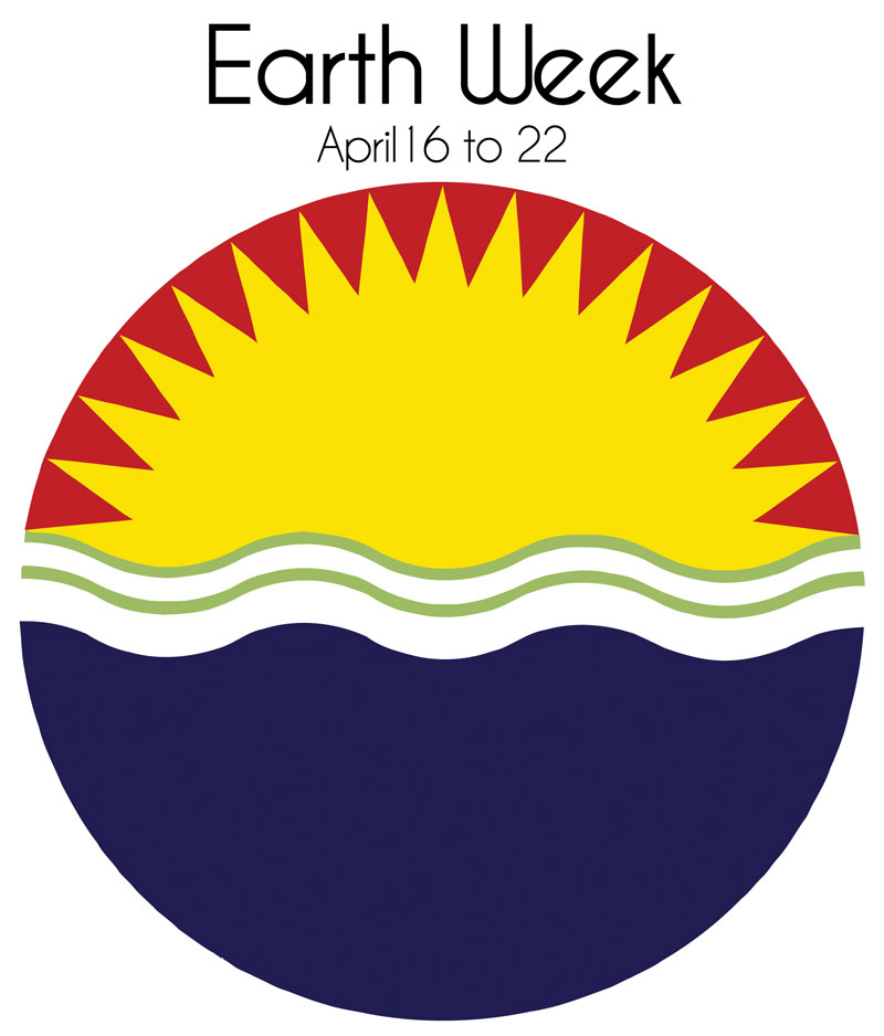 Official Earth Week logo from 1970